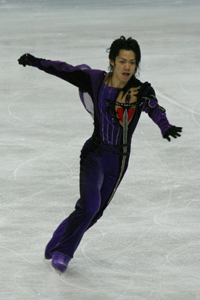 Daisuke Takahashi during his free program at the 2008 World Championships.